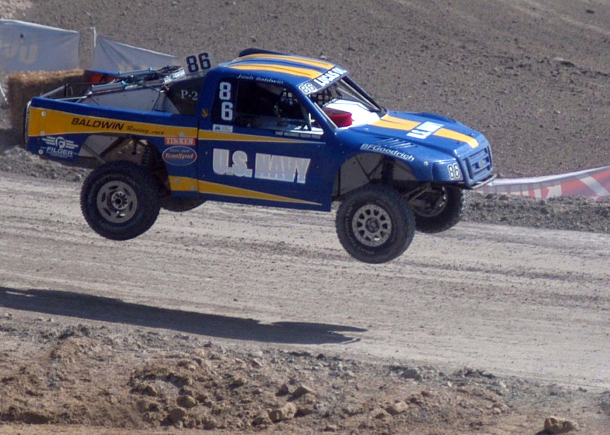 051001-N-0899S-132 Chula Vista, Calif. (Oct. 1, 2005) - Josh Baldwin, the driver of the Navy-sponsored racing truck, competes in the Pro 2 series during the 2005 Championship Off-Road Racing (CORR) Nissan Nationals at the Chula Vista International Raceway in Chula Vista, Calif., from Sept. 23-24 and Oct. 1-2. CORR owner Jim Baldwin approached the Navy and expressed an interest to see if the Navy would want to be represented in the race. The vehicle was created by Josh Baldwin of CORR racing and the Baldwin Racing Team. The Baldwin family donated the Navy themed vehicle, driver and team. U.S. Navy photo by Journalist 3rd Class Cynthia R. Smith (RELEASED)